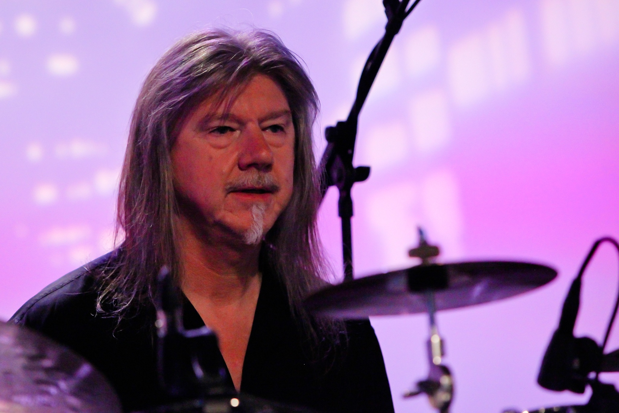 Drummer Paul Burgess at a performance with 10cc in Sweden, 2010